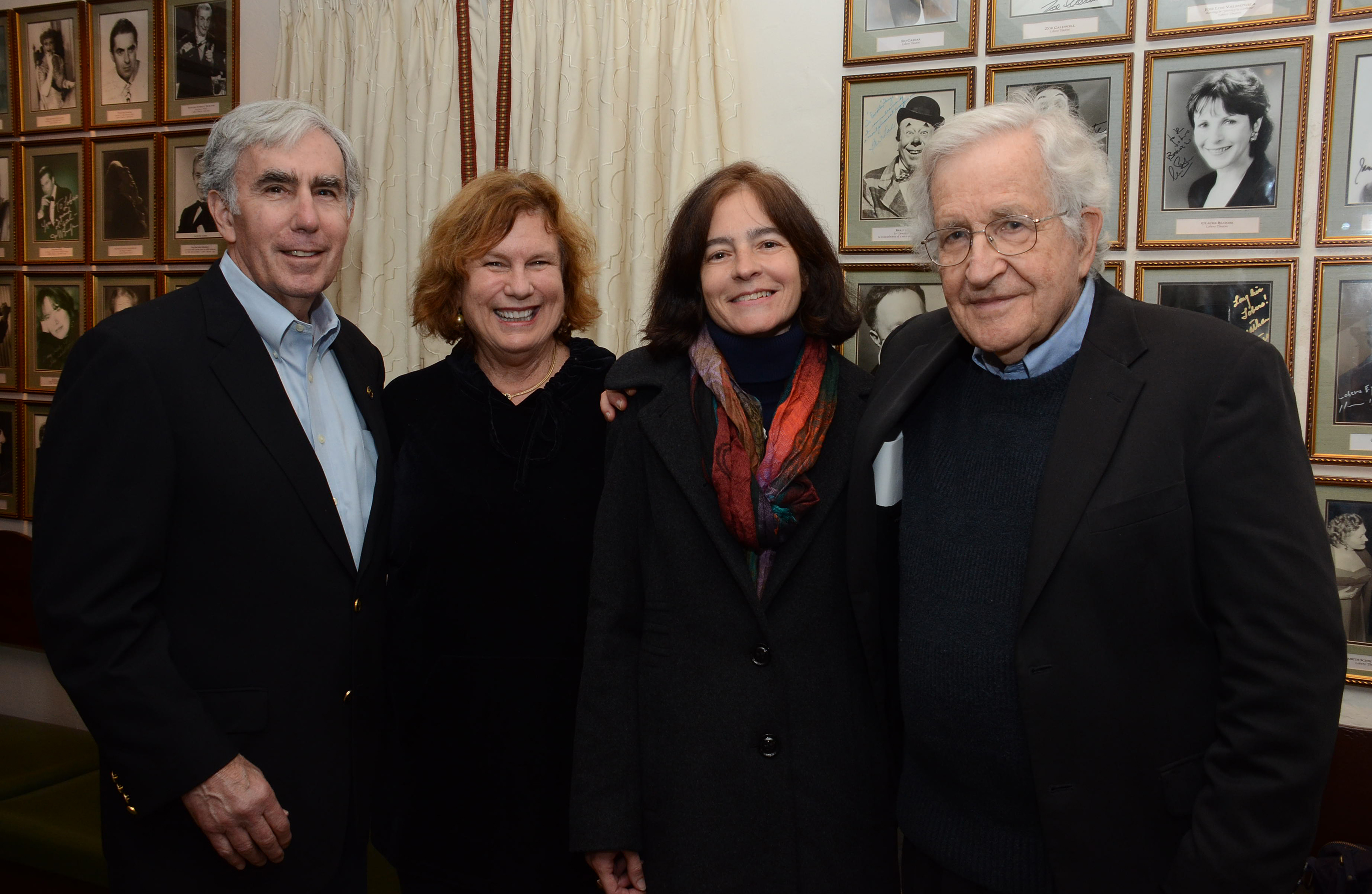 (L to R) David and Carolee Krieger of the Nuclear Age Peace Foundation, Valeria Wasserman and Noam Chomsky